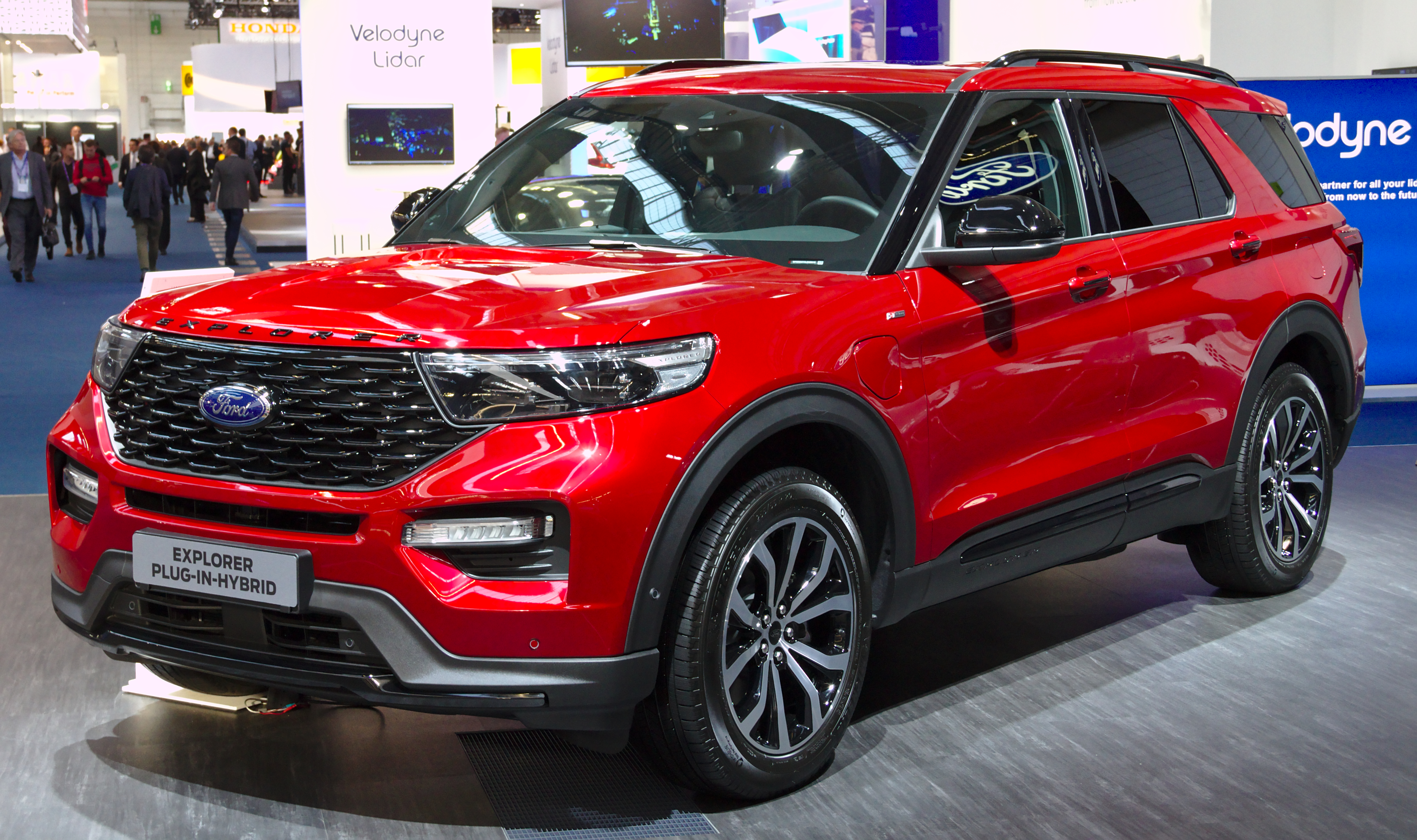 Ford_Explorer_(sixth_generation) at IAA 2019